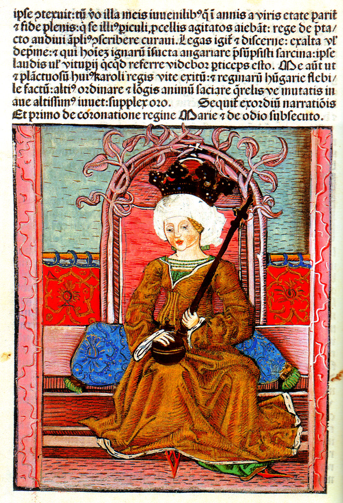 Mary, Queen of Hungary